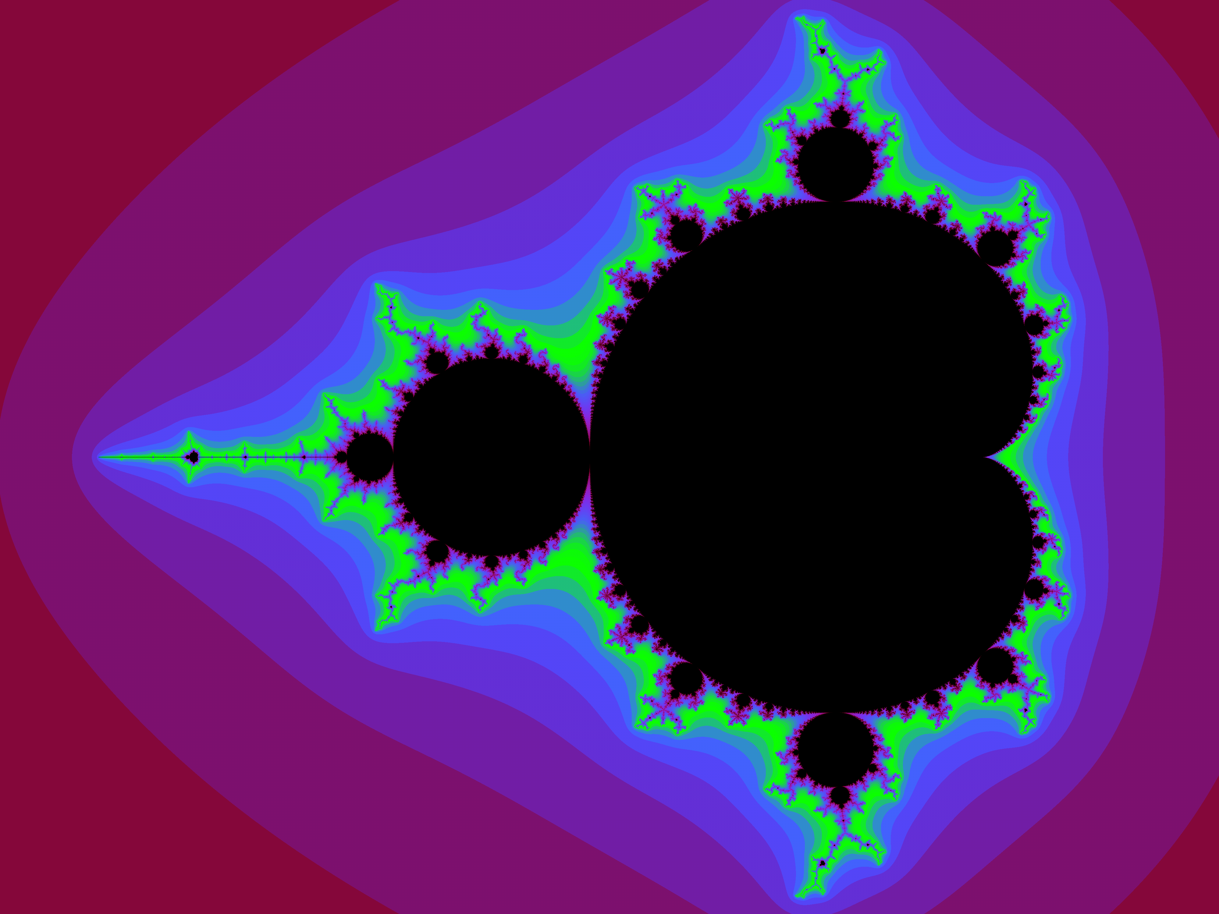 Mandelbrot set with colored environment. Each pixel is associated with a certain sequence of complex numbers. The index for which the absolute value of all following numbers exceed 1000 increases from each colored stripe to the next towards the mandelbrot set by the amount of 1.